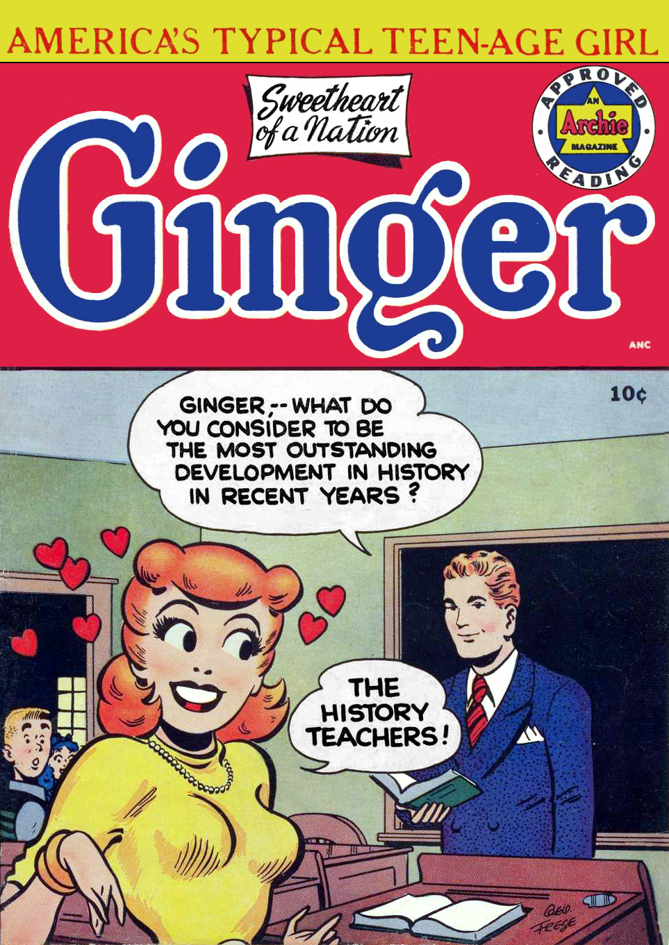 "America's Typical Teenaged Girl" was a female version of Archie Andrews, complete with bright red hair and oddball supporting cast. Ginger debuted in spring 1952, running quarterly until summer 1954. In common with many pre-code comics, Ginger featured a surprising amount of cheesecake and innuendo.